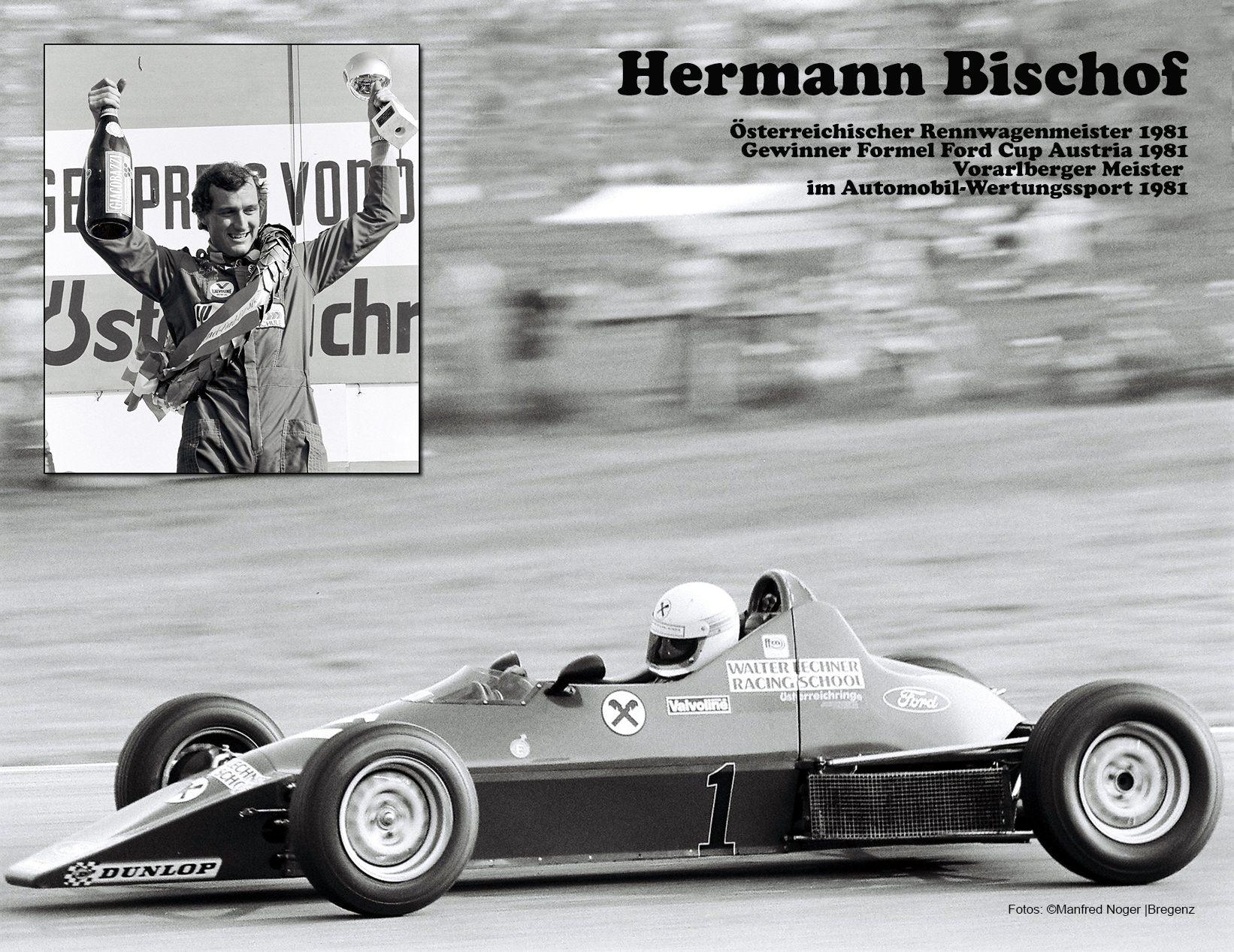 1981 Walter Lechner Racing Team, Workscar PRS shared with Stefan Beloff